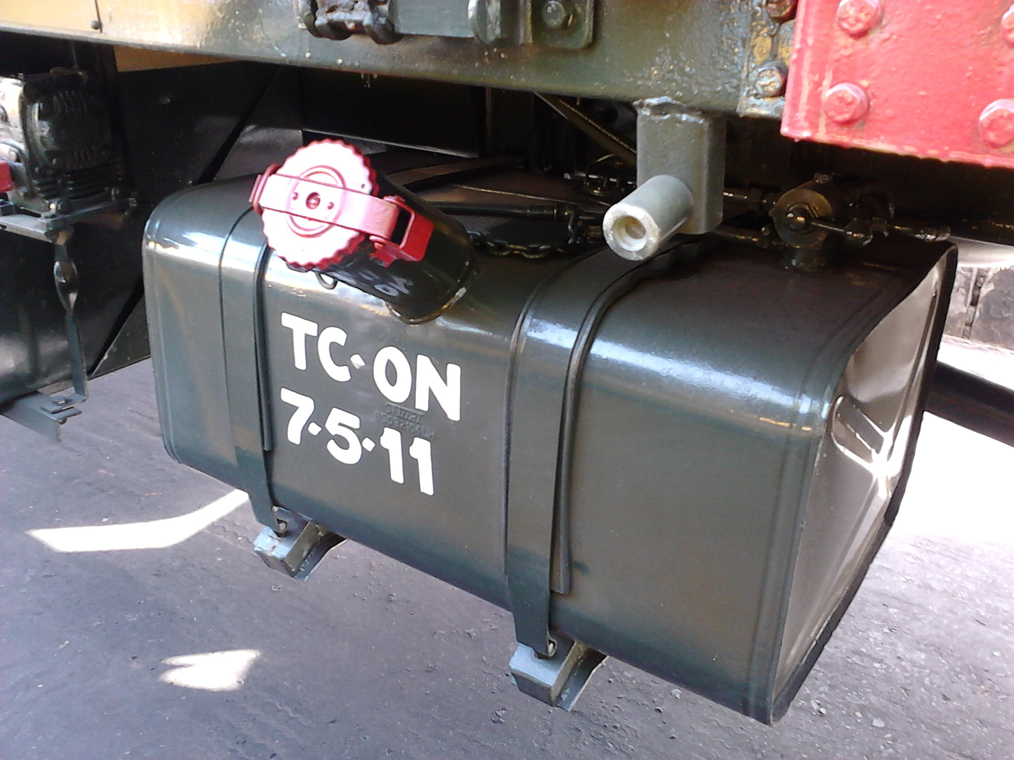 Fuel tank of a Ashok Leyland Indian army truck.